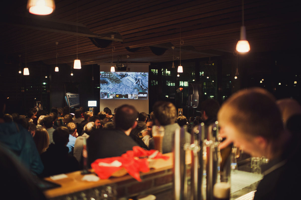 picture showing a barcraft event in munich